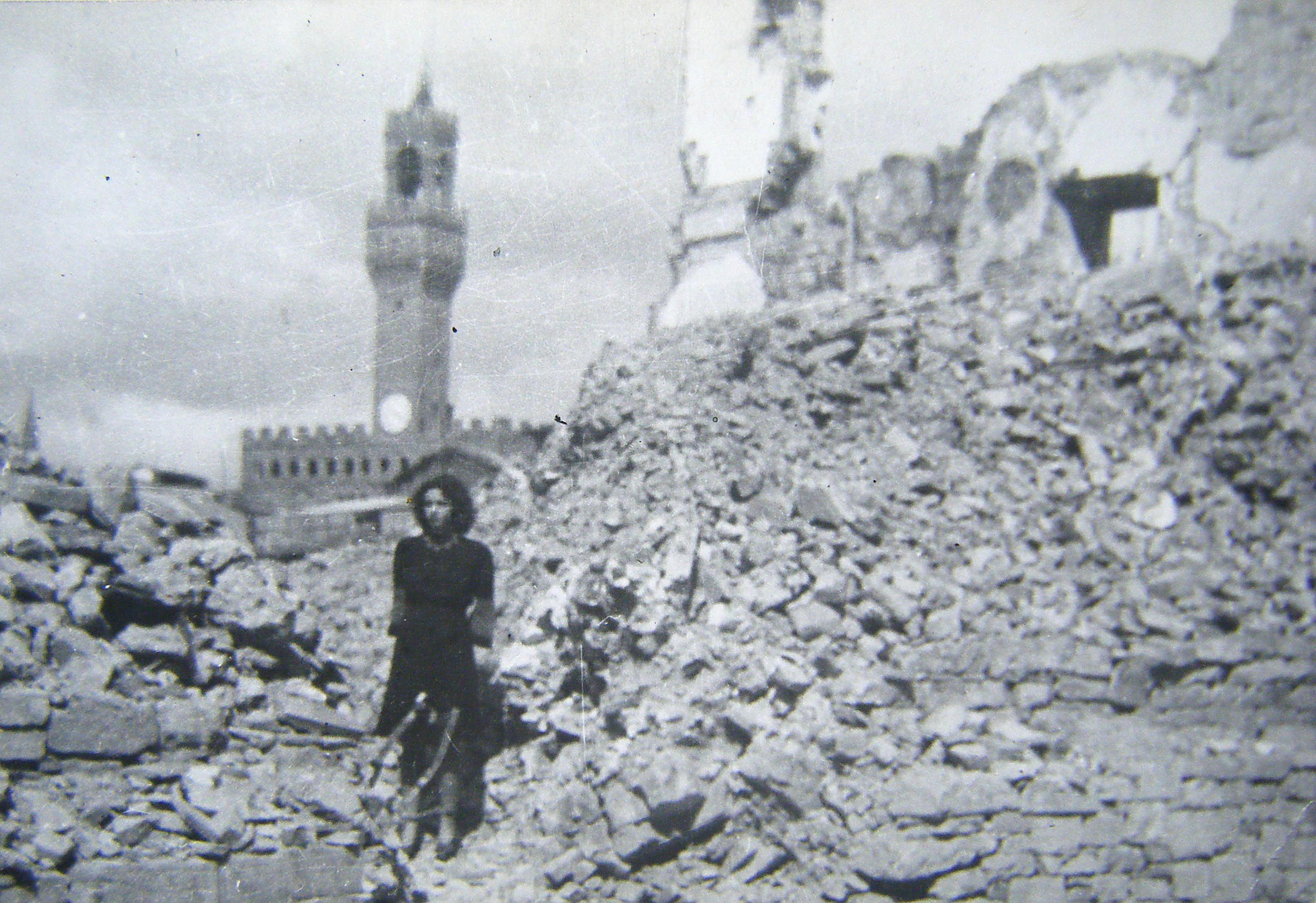 Florence: Borgo San Jacopo in september 1944 - (the girl was my mother)